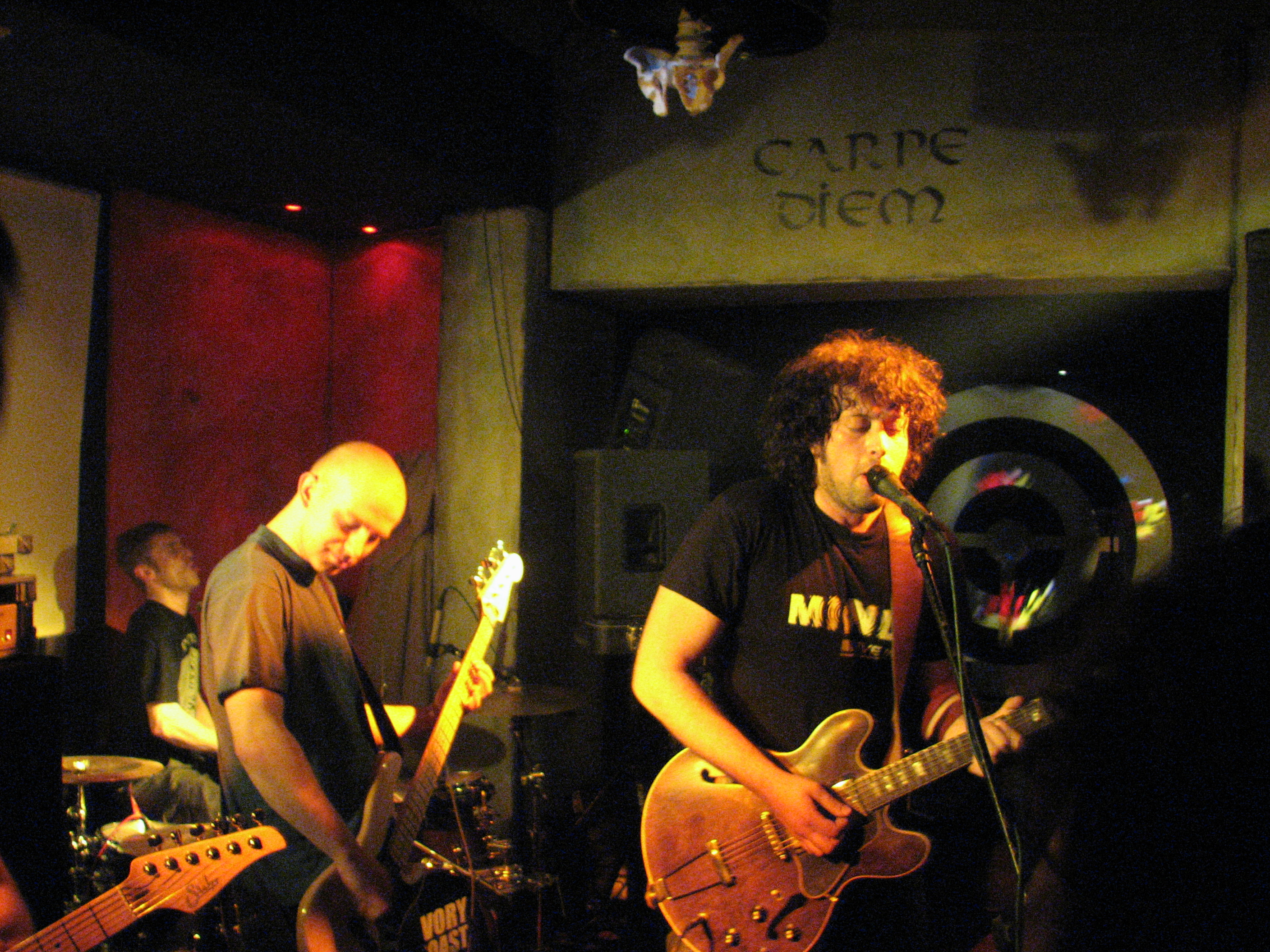 Tymon & Transistors - Carpe Diem Katowice 18.04.2004